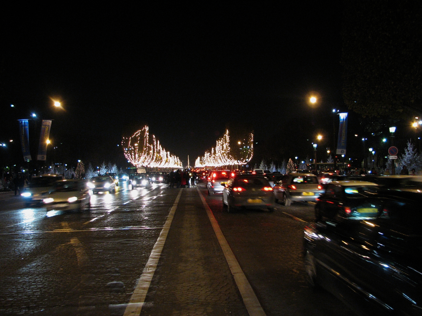 The Avenue des Champs-Élysées with Christmas Lights. East Side with the obelisk of Place de la Concorde. Picture taken the 7th of December, 2005.